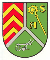 Coat of arms of Obersimten